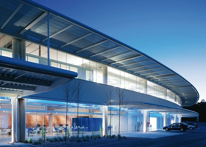 MAHLE Tech Center - Jundiai